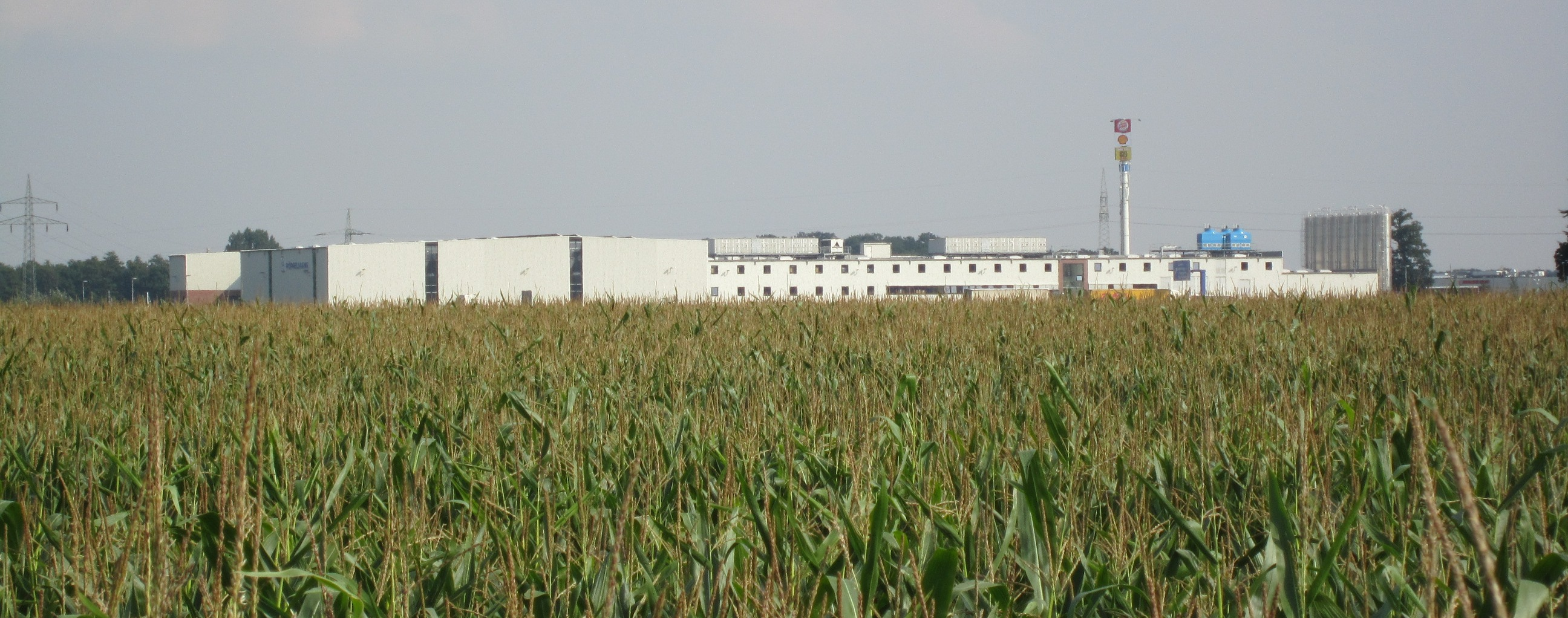 Poeppelmann factory ("Werk III") in Lohne behind Bundesautobahn 1